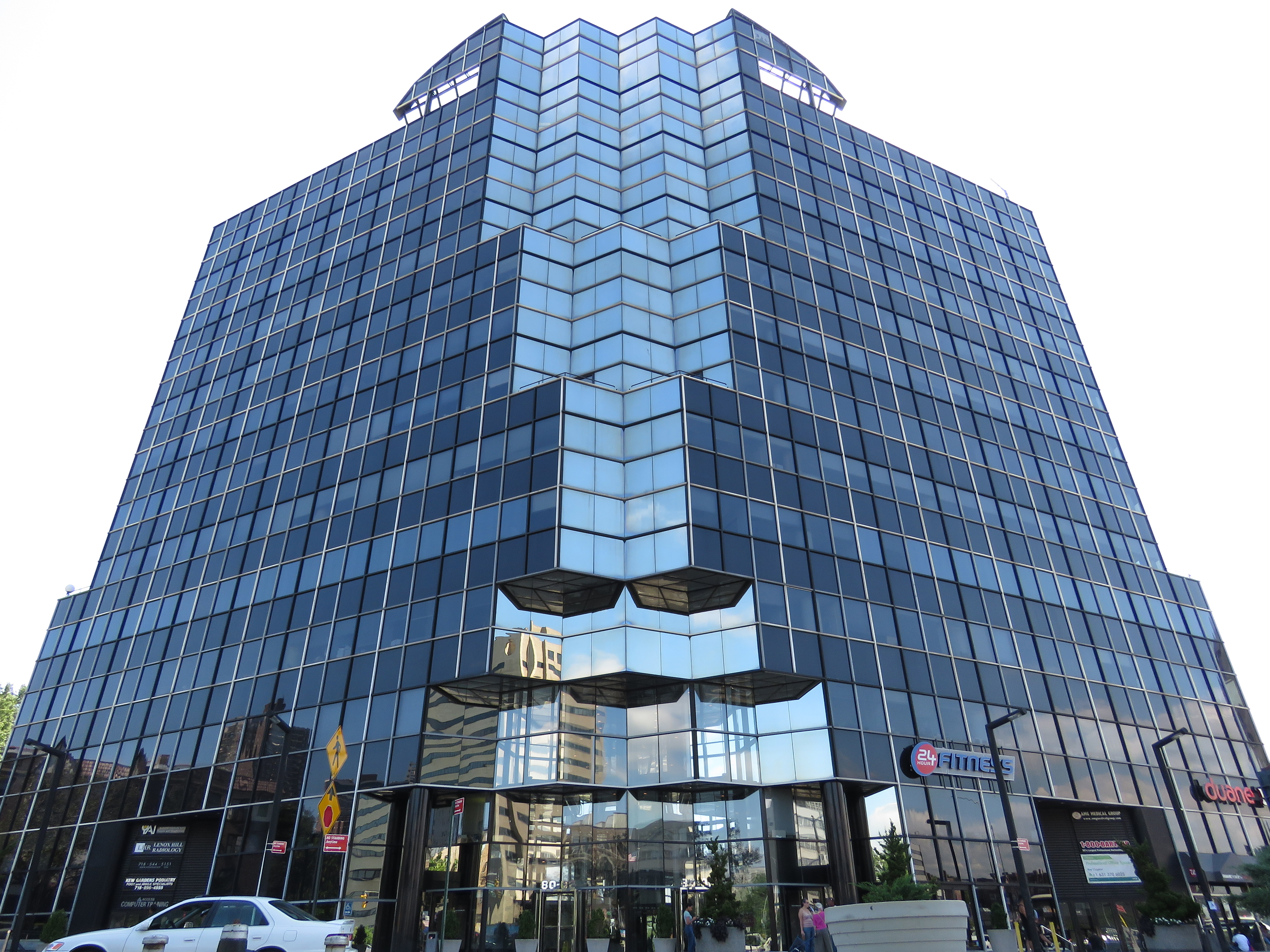 Formerly known as the JetBlue Airways Headquarters.